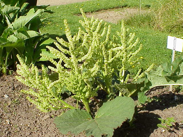 Species: Rheum tibeticum Family: Polygonaceae Image No. 3